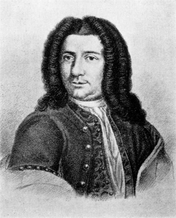 Portrait of Dr. Kilian Stobaeus (1690-1742), after painting by C.P. Mörth 1735.